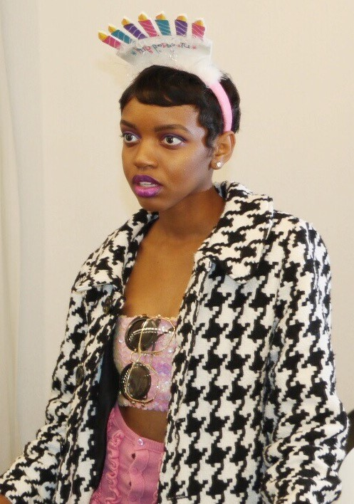 captured during the video shoot of "Trust 'Em"